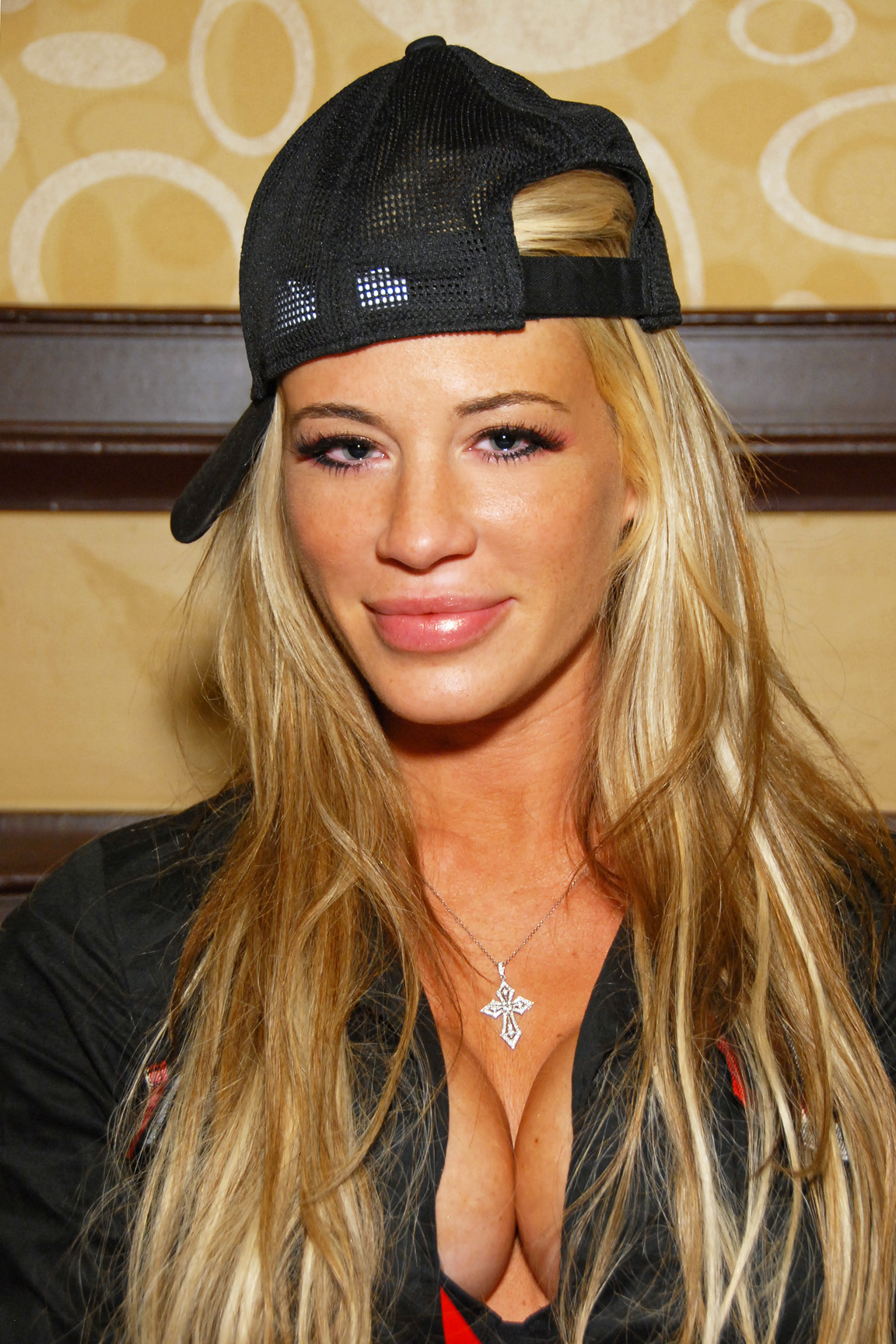 Ashley Massaro, Los Angeles, CA on October 1, 2011 - Photo by Glenn Francis of